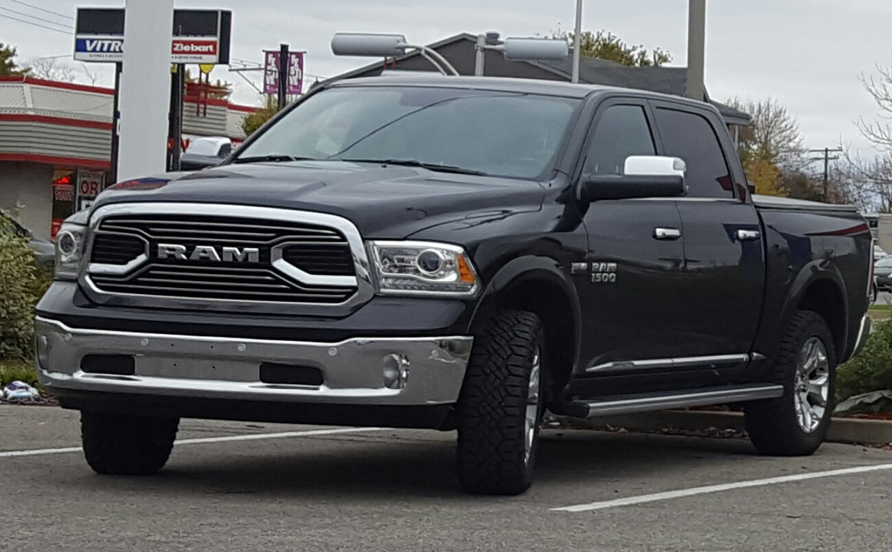 2016 Ram 1500 photographed in St. Eustache, Quebec, Canada.